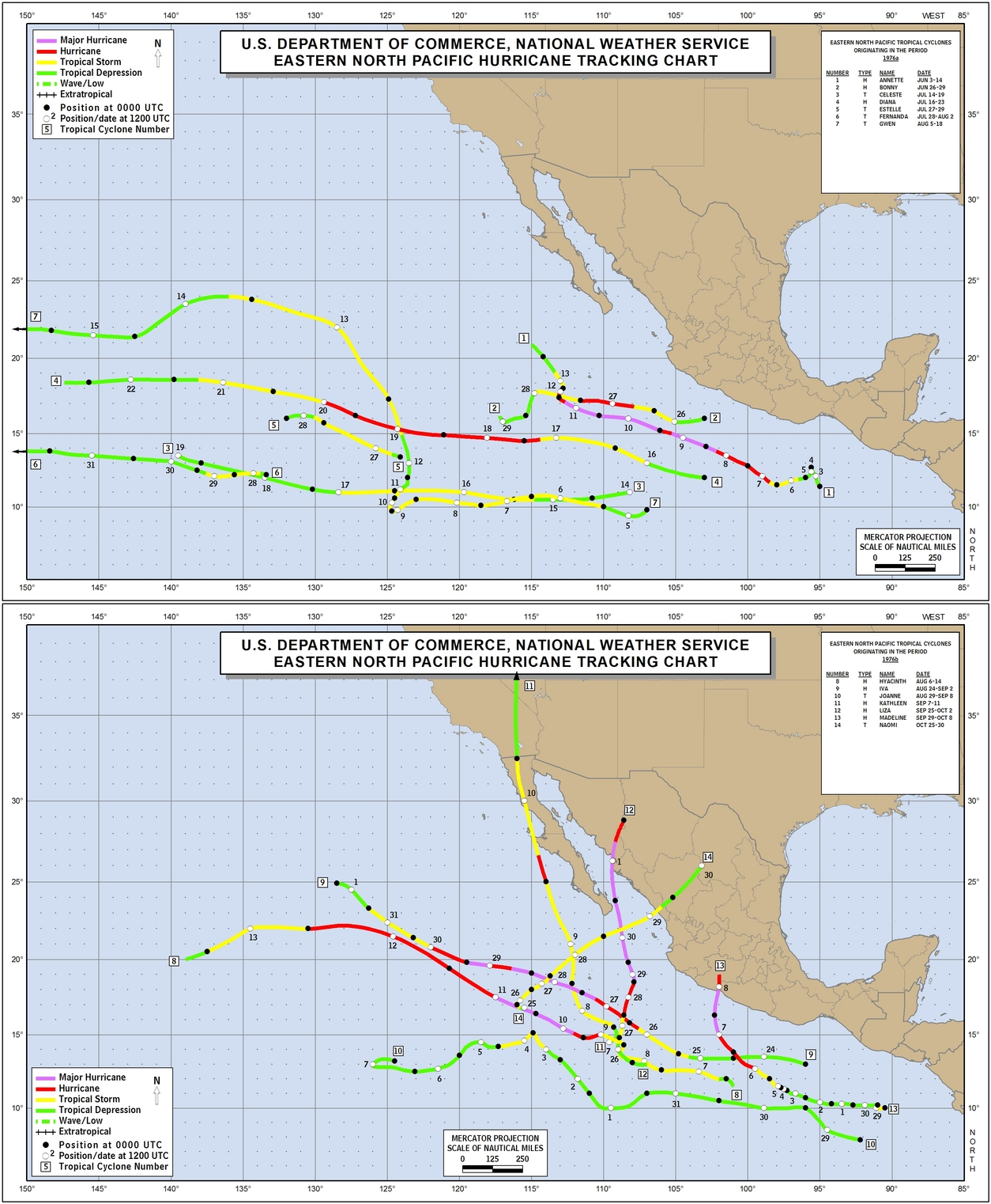 This map shows the tracks of all tropical cyclones in the 1976 Pacific hurricane season. The points show the location of each storm at 6-hour intervals. The colour represents the storm's maximum sustained wind speeds as classified in the Saffir-Simpson Hurricane Scale (see below), and the shape of the data points represent the type of the storm. Saffir–Simpson scale Tropical depression≤38 mph≤62 km/h Category 3111–129 mph178–208 km/h Tropical storm39–73 mph63–118 km/h Category 4130–156 mph209–251 km/h Category 174–95 mph119–153 km/h Category 5≥157 mph≥252 km/h Category 296–110 mph154–177 km/h Unknown Storm type Tropical cyclone Subtropical cyclone Extratropical cyclone / Remnant low / Tropical disturbance